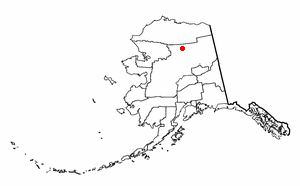 Adapted from Wikipedia's AK borough maps by Seth Ilys.